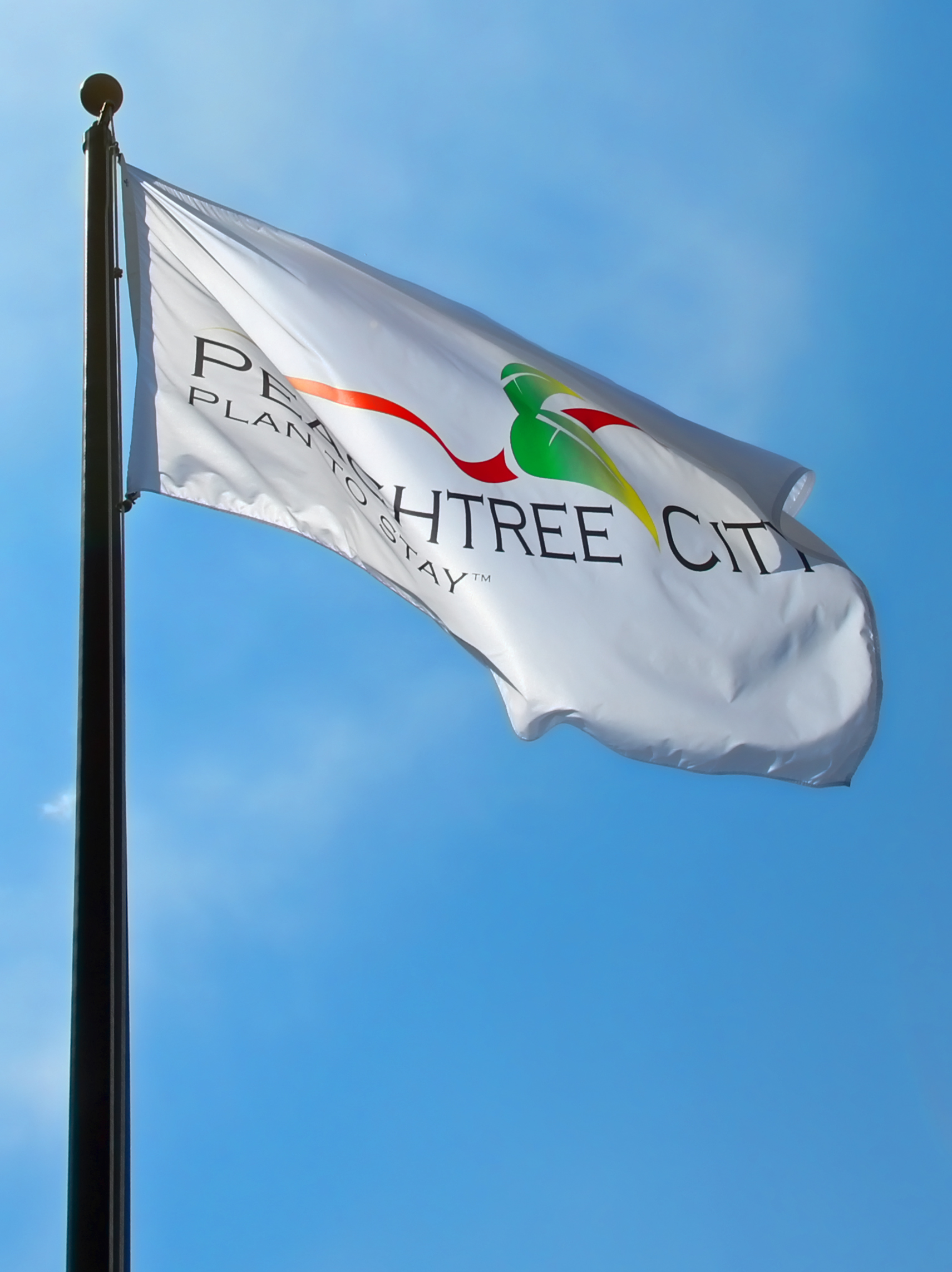 The official flag of Peachtree City, Georgia outside of City Hall.